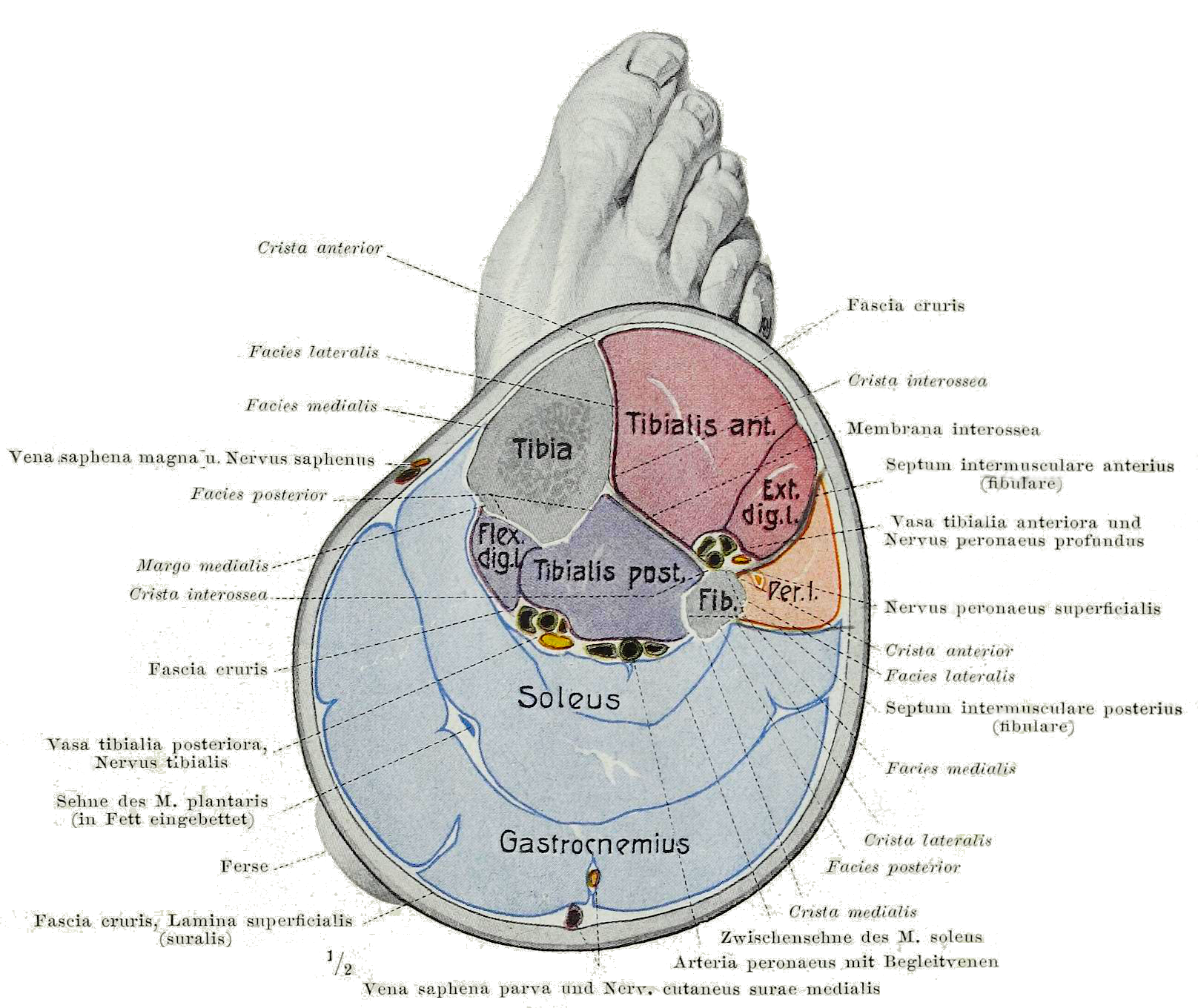 An anatomical illustration from the 1921 German edition of Anatomie des Menschen: ein Lehrbuch für Studierende und Ärzte with latin terminology.